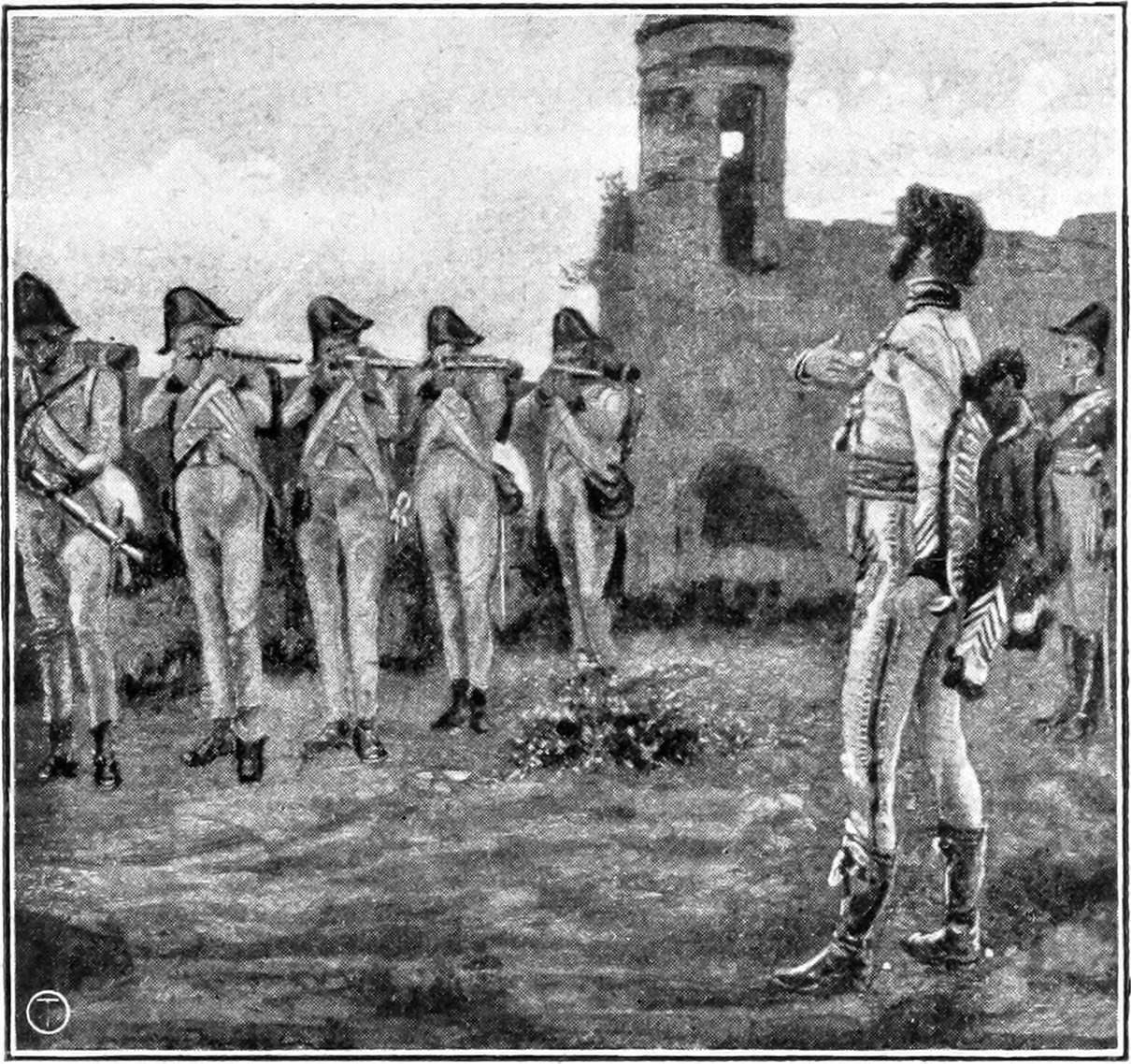 Image from book: Leopoldo Pullè, Patria Esercito Re, Ulrico Hoepli, Milan, 1908.